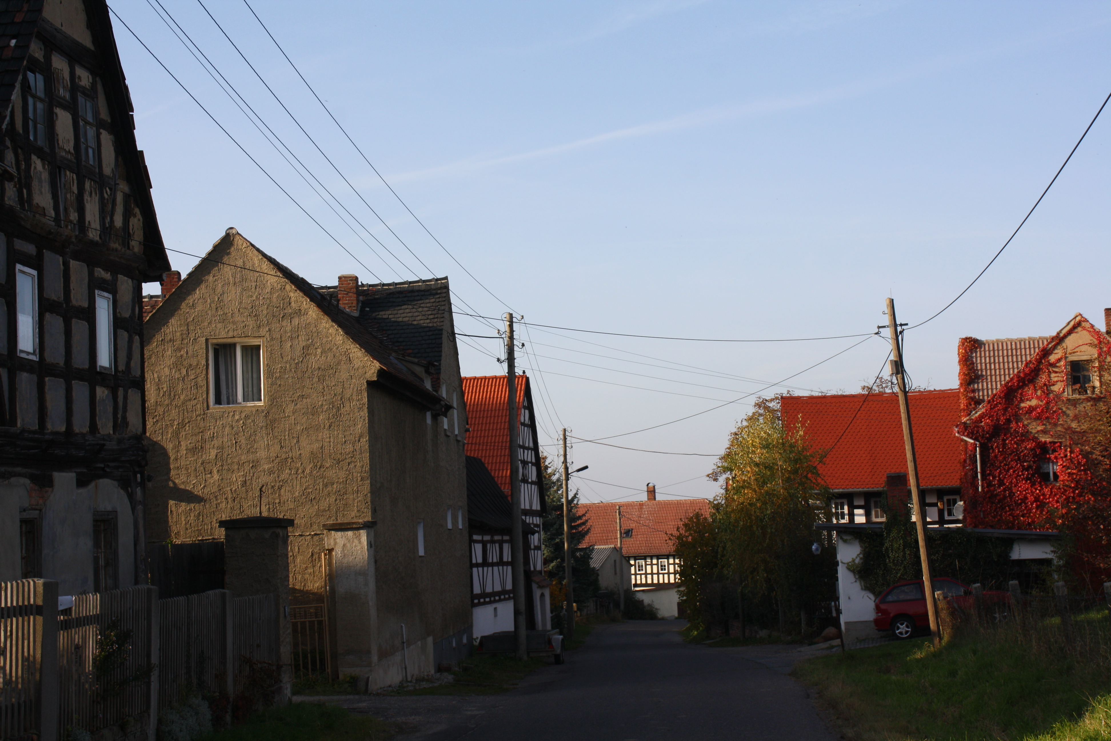 Street in Oberleupten, municipality Nobitz, near Altenburg/Thuringia